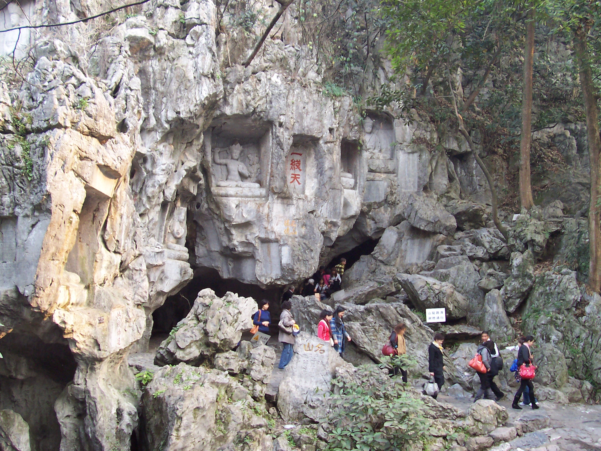 Feilaifeng,Hangzhou